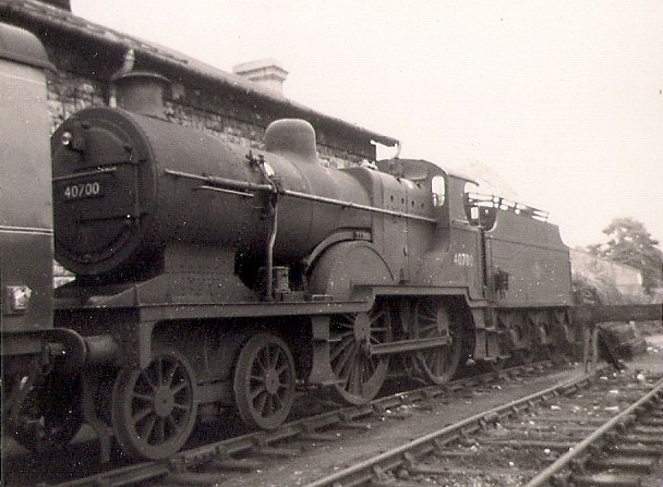 40700 languishing at Bath Green Park Depot on the Somerset and Dorset on 25th July 1961.